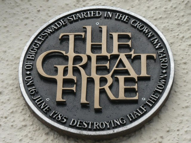 Biggleswade: great fire plaque A plaque on the wall of the 884567, detailing the great fire of Biggleswade which started in the hotel yard.